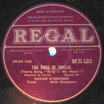 "The Rose Of Tralee", by Cavan O'Conner; Regal Records